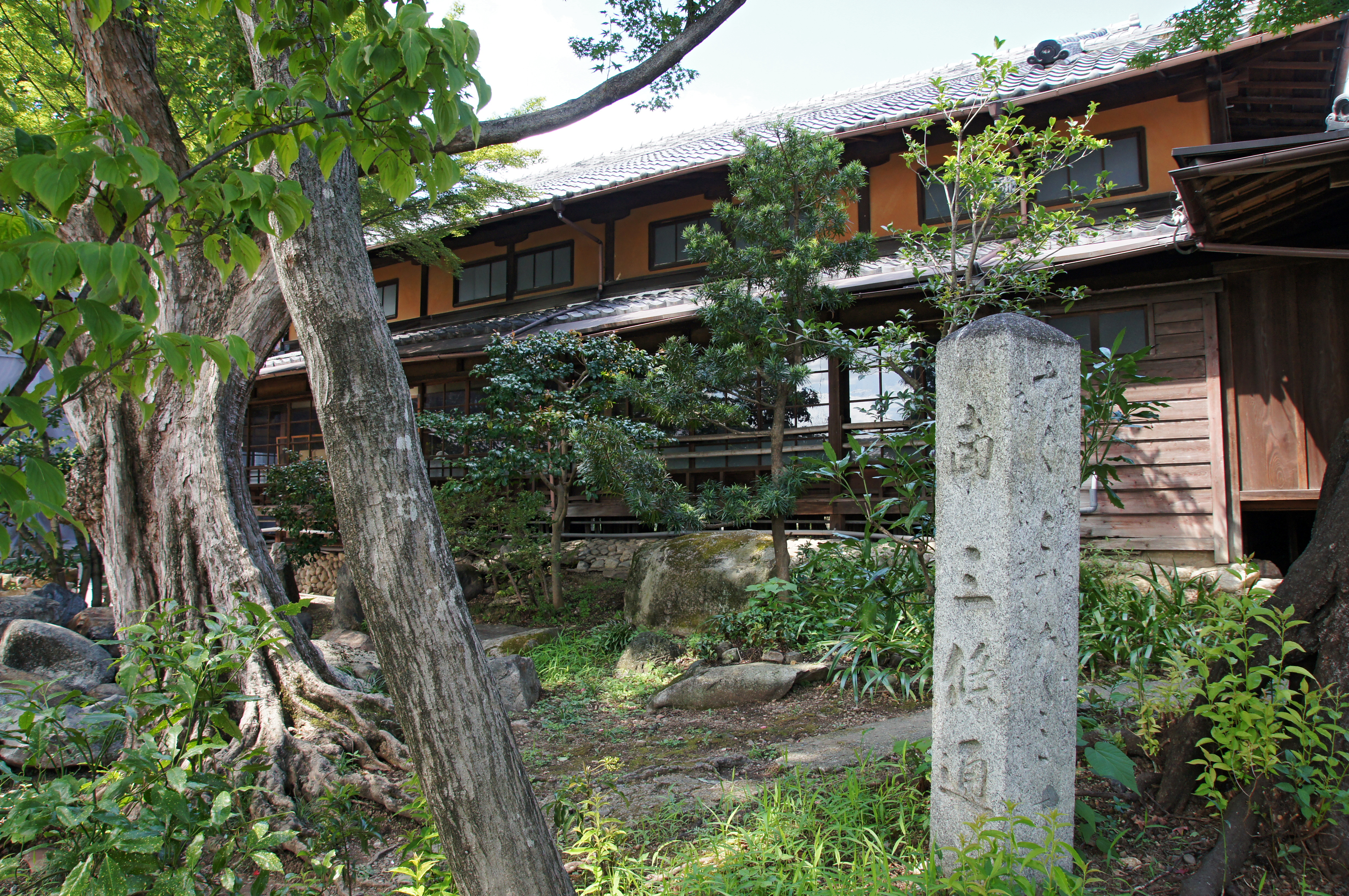 Oukoku Bunko in Kyoto, Kyoto prefecture, Japan.